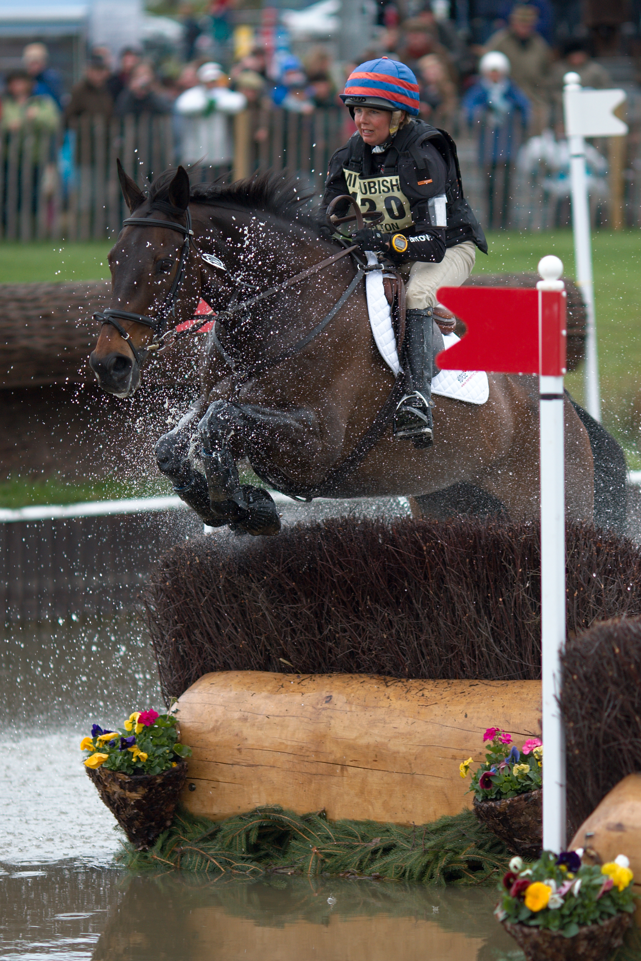 Louise Skelton and Bit Of A Barney at The Lake during the cross-country phase of Badminton Horse Trials 2010.